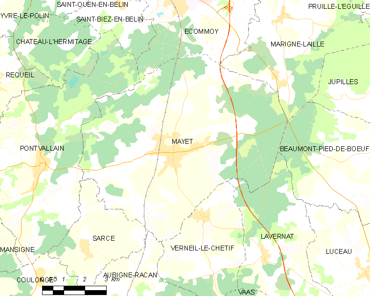 Map of French municipality